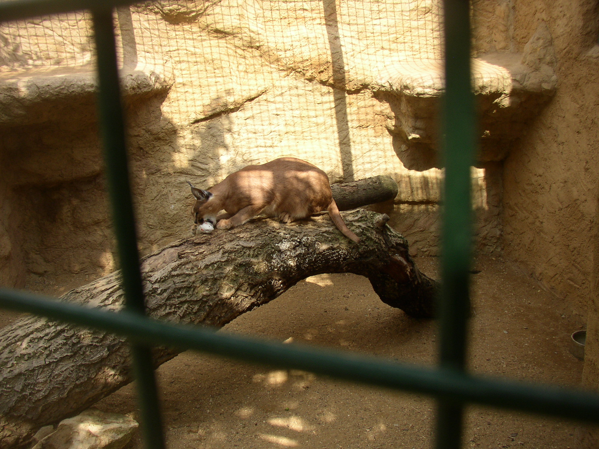 Caracal (Caracal caracal) is about to devour Common Rat (Rattus norvegicus); Zoopark in Zájezd, Kladno District, Czech Republic.